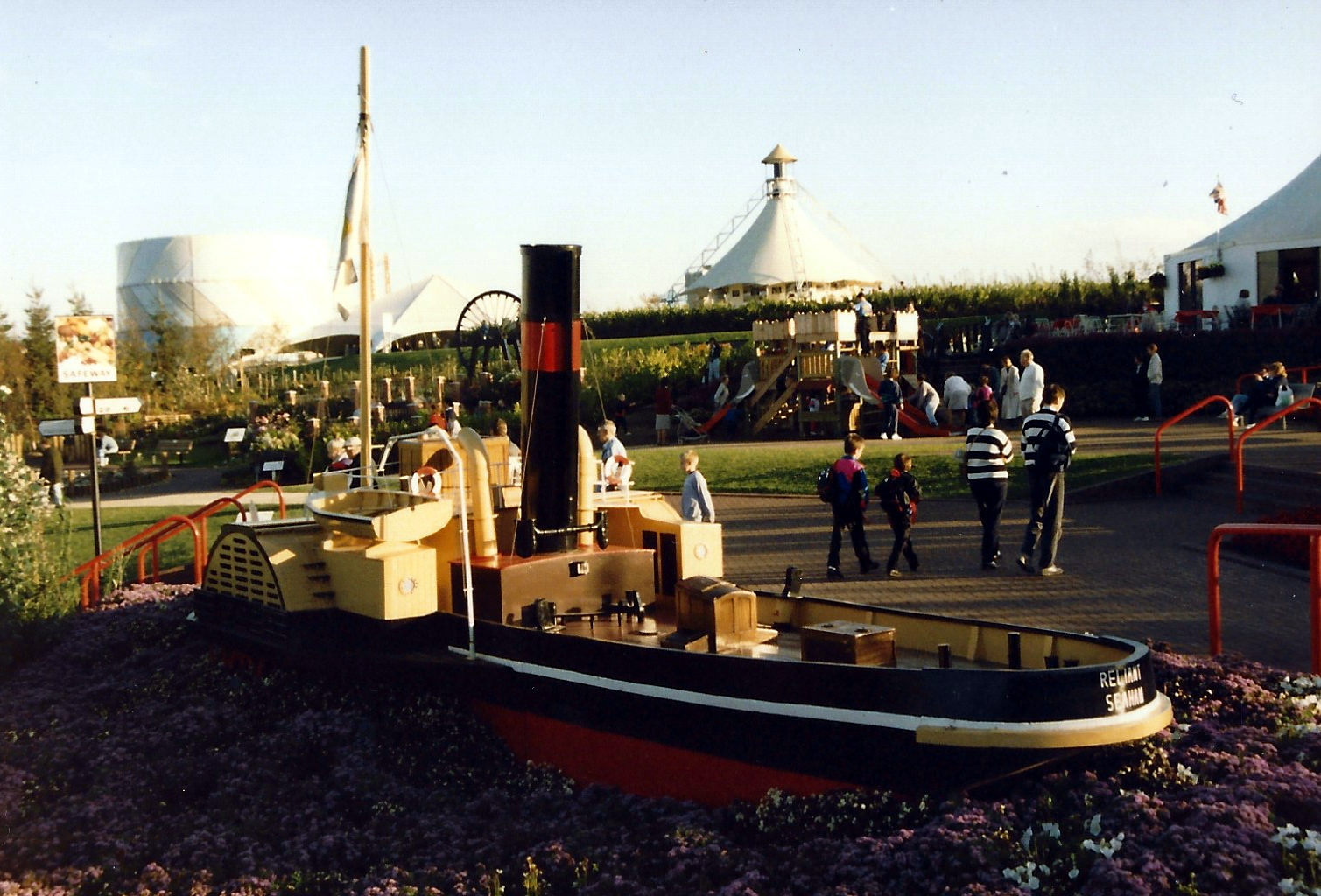 Gateshead Garden Festival, held in Gateshead between 18 May and 21 October 1990. This is a colour print photo which has been scanned and colour adjusted. Note I visited the festival on 2 or 3 occasions and I am not sure of the exact dates of my photos.